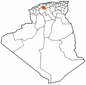 Blank map of the provinces of Algeria with a red city locator dot. Made by User:Escondites, blank version by User:Golbez.